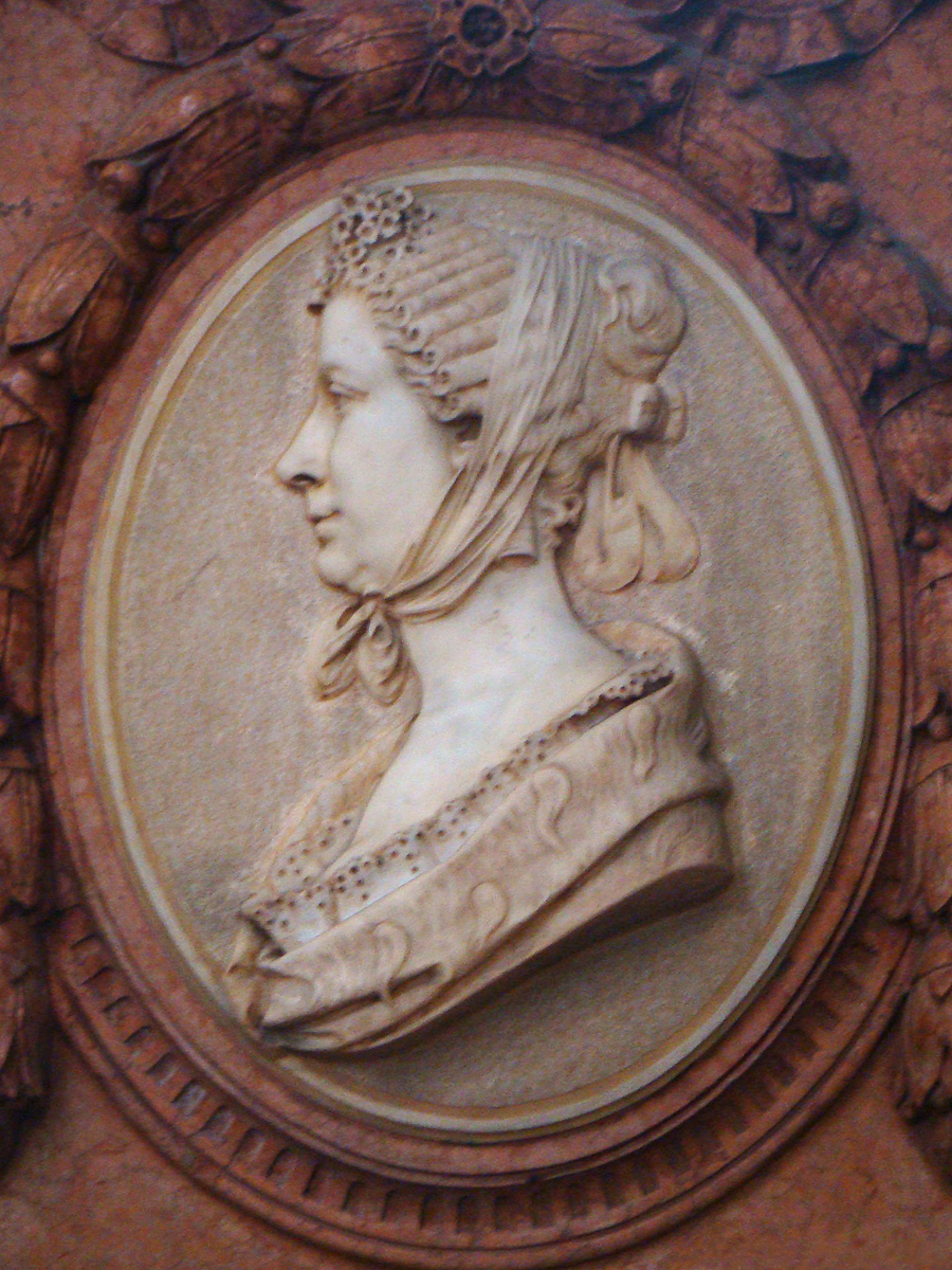 Franziska von Hohenheim (1748-1811). Grave memorial with portrait bust, 1906